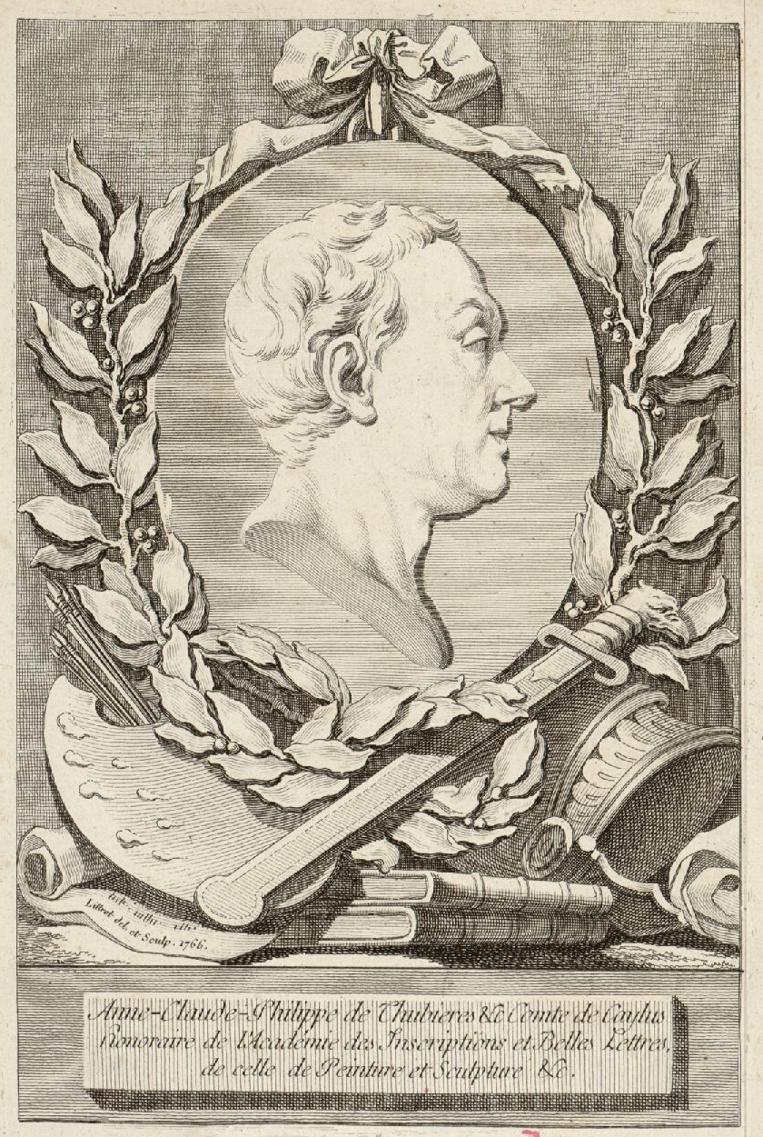 Caylus in Receuil d'Antiquités Tome 7